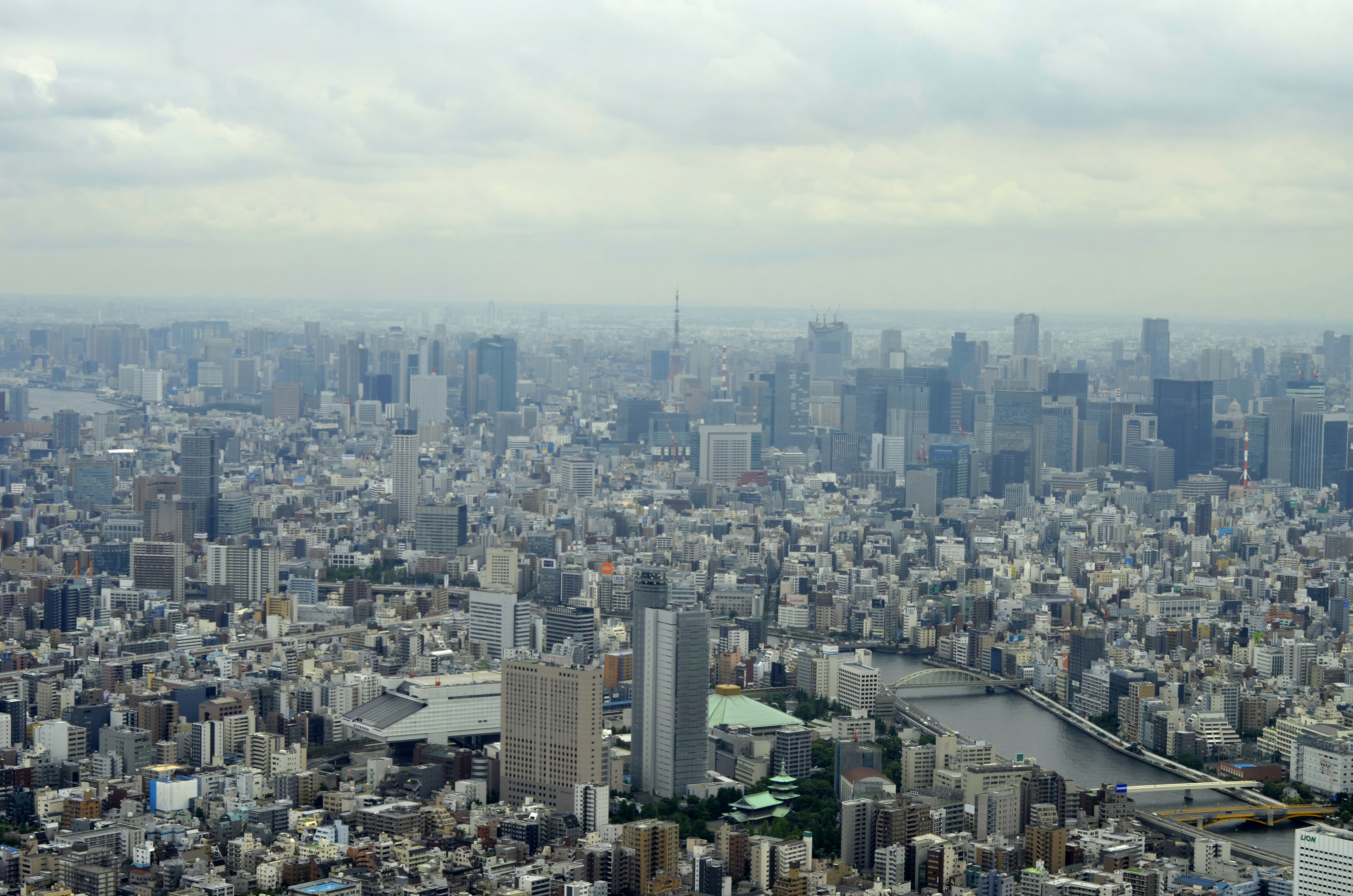 View on Tokyo from Tokyo Skytree Tembo Deck (350m) Direction: Southwest